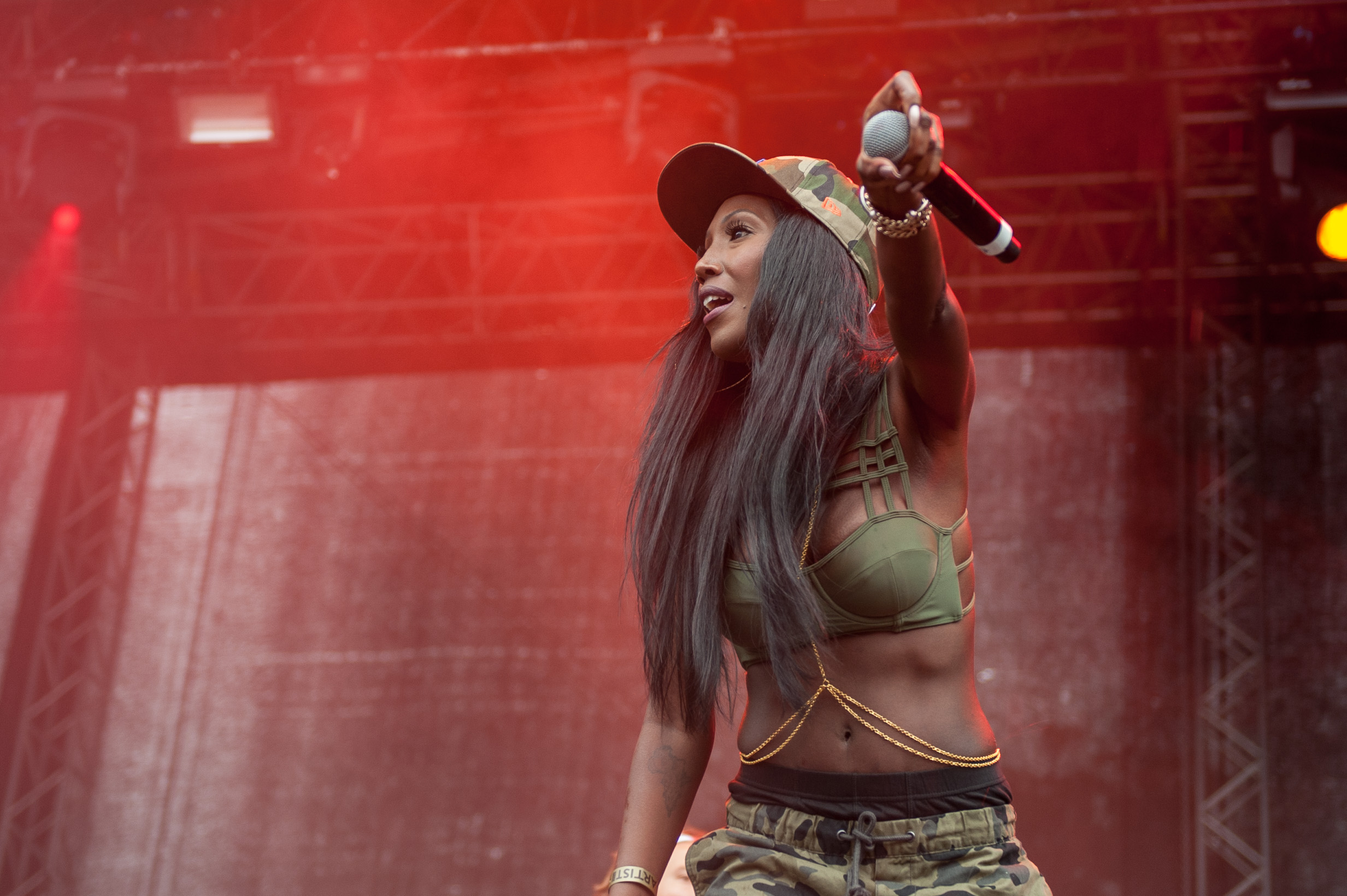 Kumba at Way Out West in Gothenburg, Sweden, august 2014